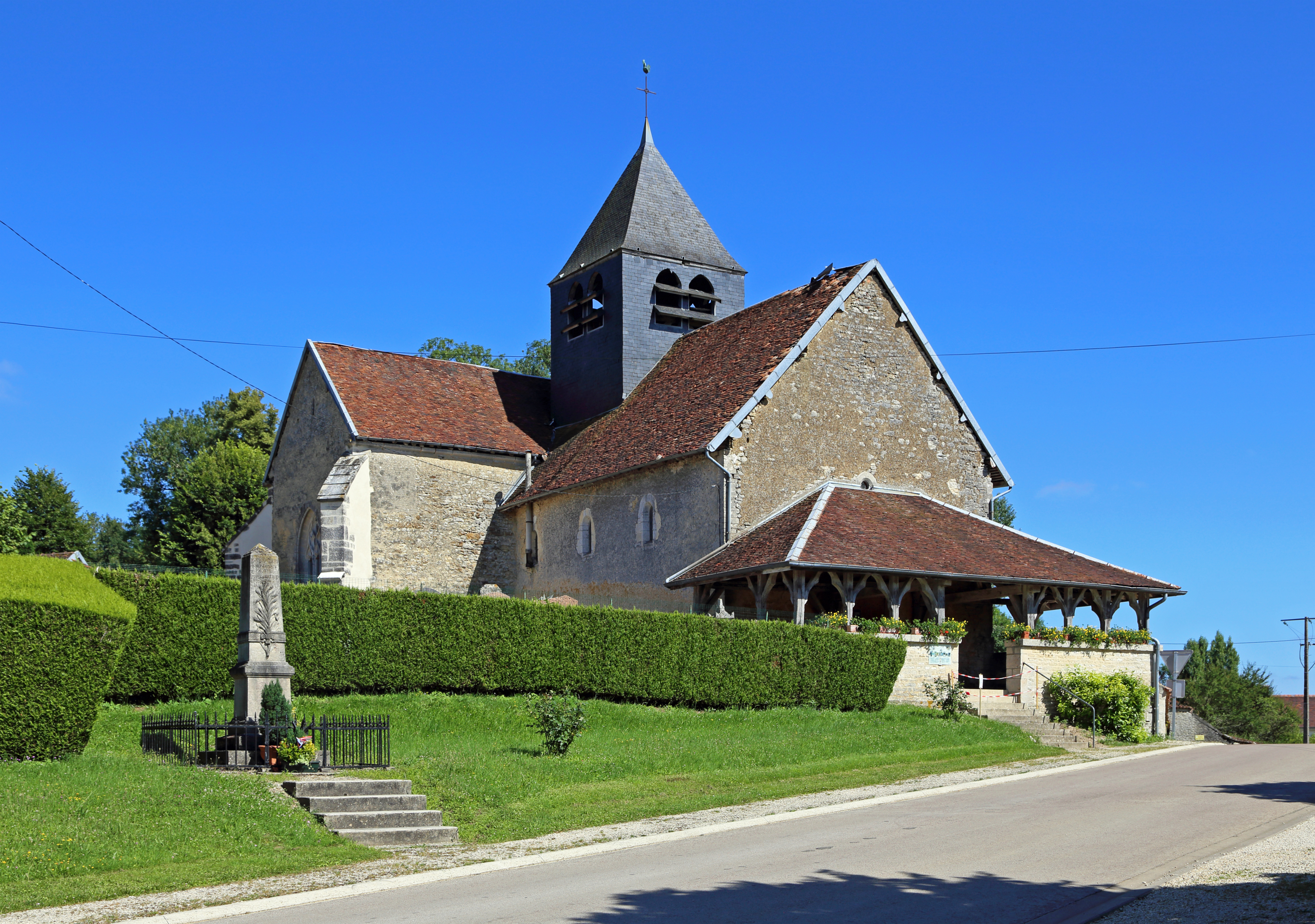 Vauchonvilliers (Aube department, France): St Peter and St Paul church